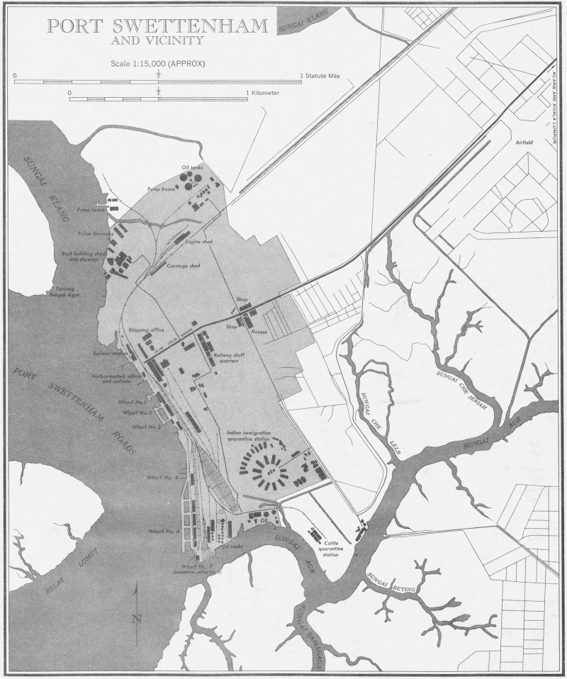 Map of Port Swettenham And Vicinity, in Klang within the Malaysian state of Selangor in 1954.